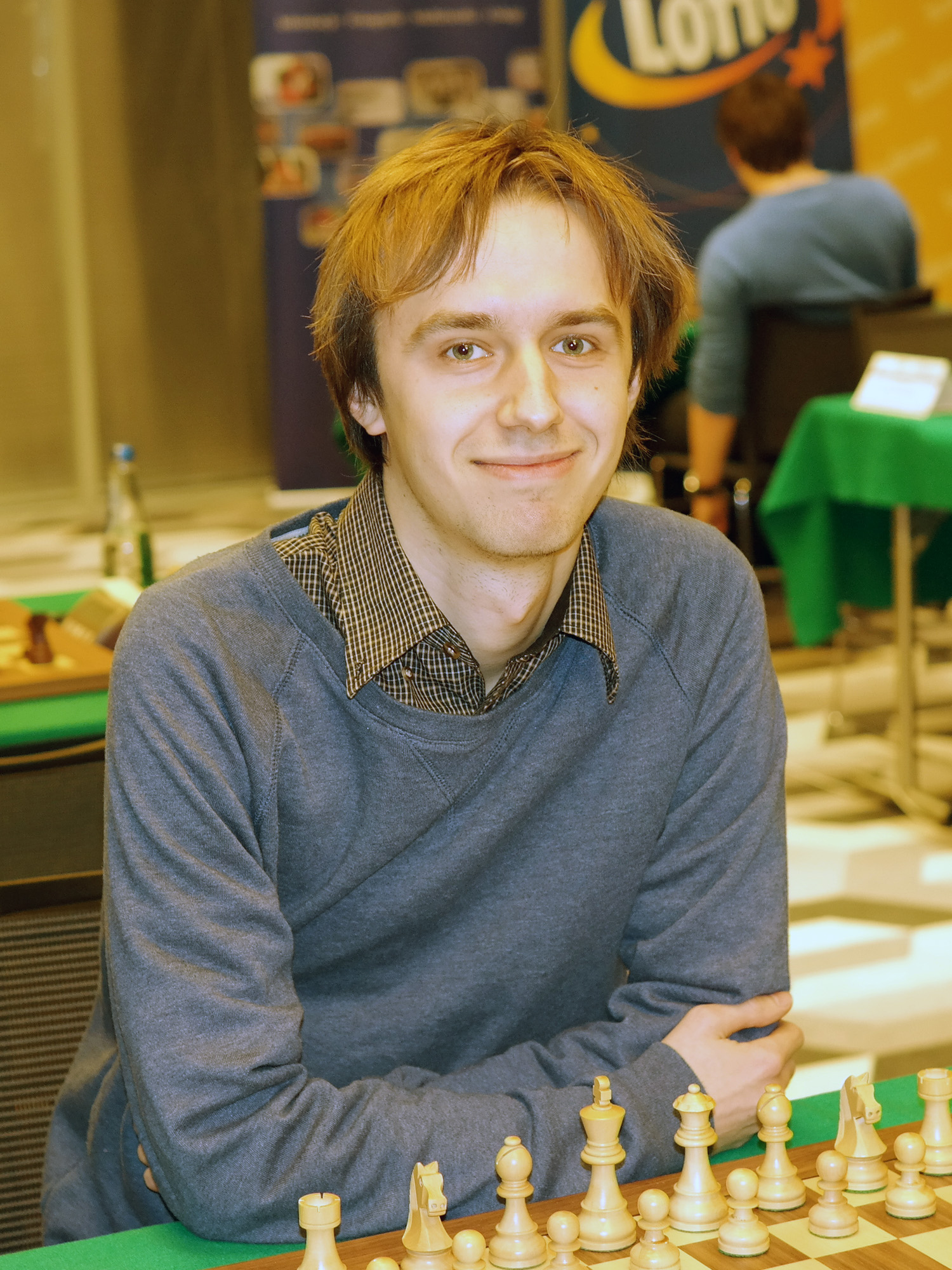 GM Jacek Tomczak, Polish Chess Championship, Warsaw 2014